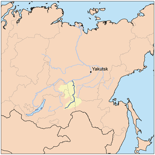 This is a map of the Olyokma River Watershed, based on USGS data.